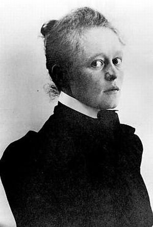 Photograph (cropped) of the Finnish painter Helene Schjerfbeck, taken in the 1890s.